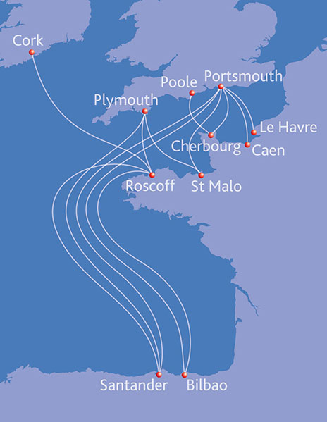 Brittany Ferries routes map